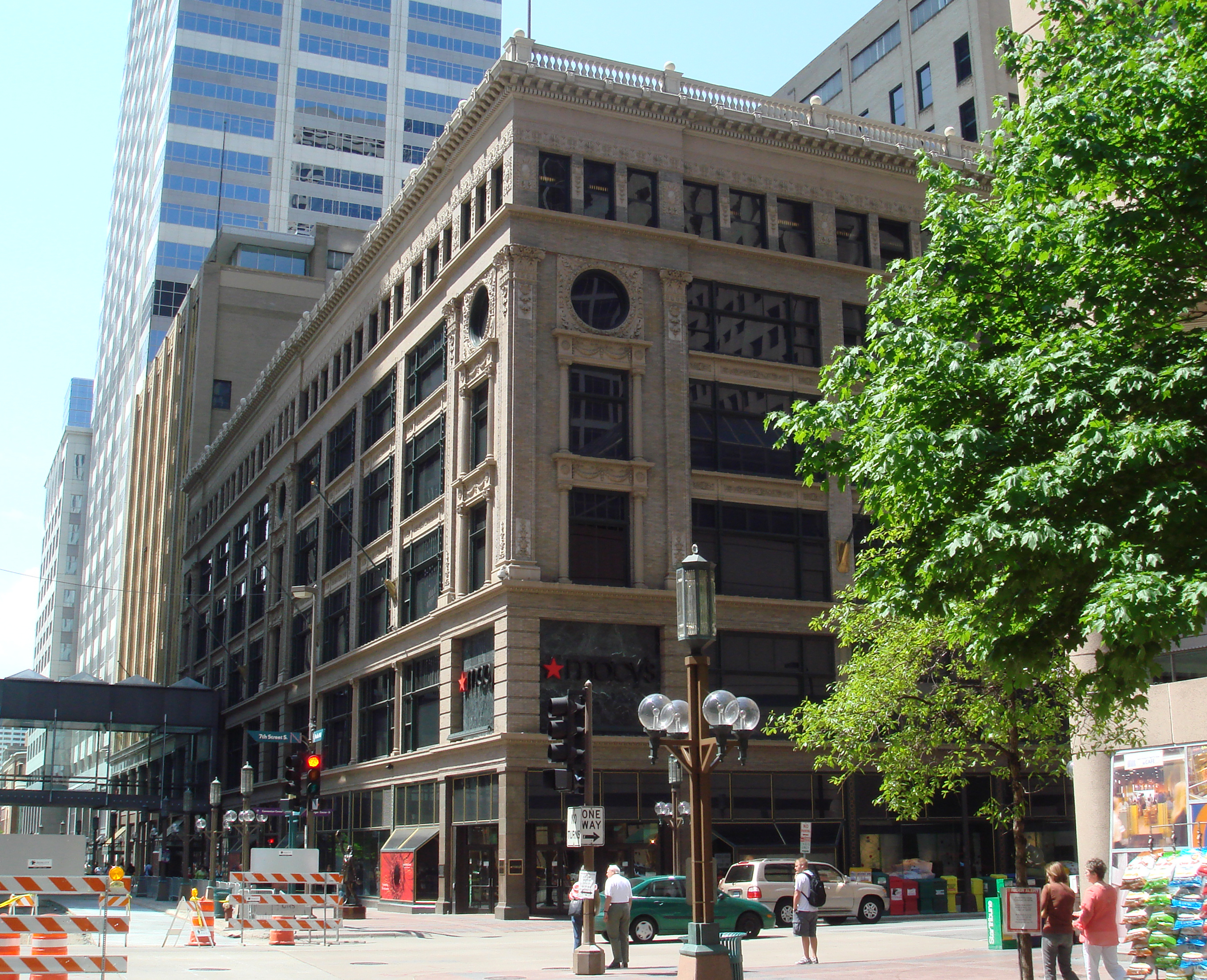 The original Dayton's department store in downtown Minneapolis, Minnesota. Dayton's, later even bigger because of its Target stores, purchased Marshall Field's and the store was rebranded to what was thought to be a more national name. In 2005, Dayton's (now Target Corporation) sold off its departments stores to Macy's, and all Marshall Field's were rebranded as Macy's. This building was featured in the The Mary Tyler Moore Show, and a bronze statue of Mary tossing her hat in the air (a famous image from the opening credits) stands in the foreground at the corner where it occurred